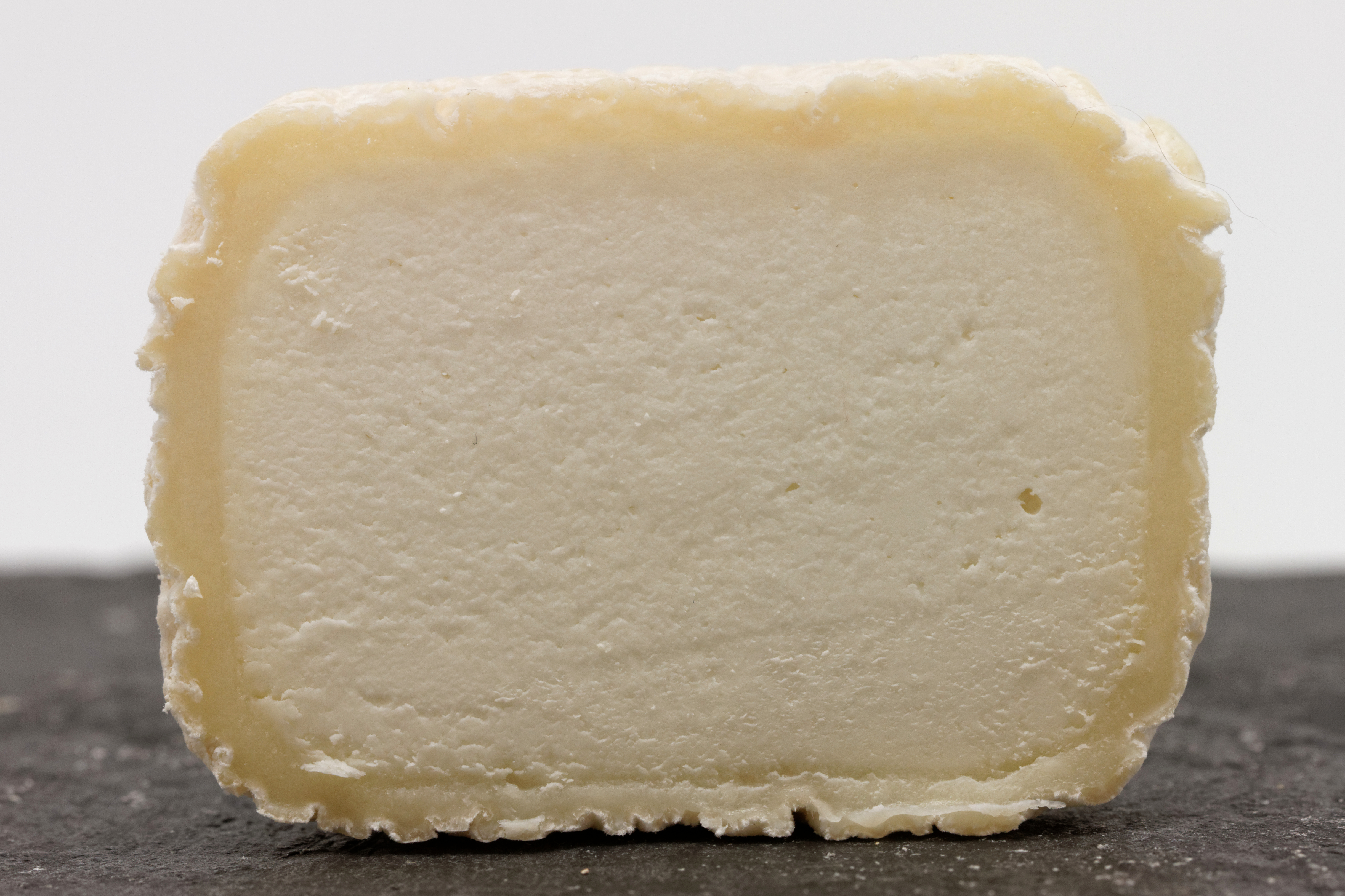 crottin (goat cheese)